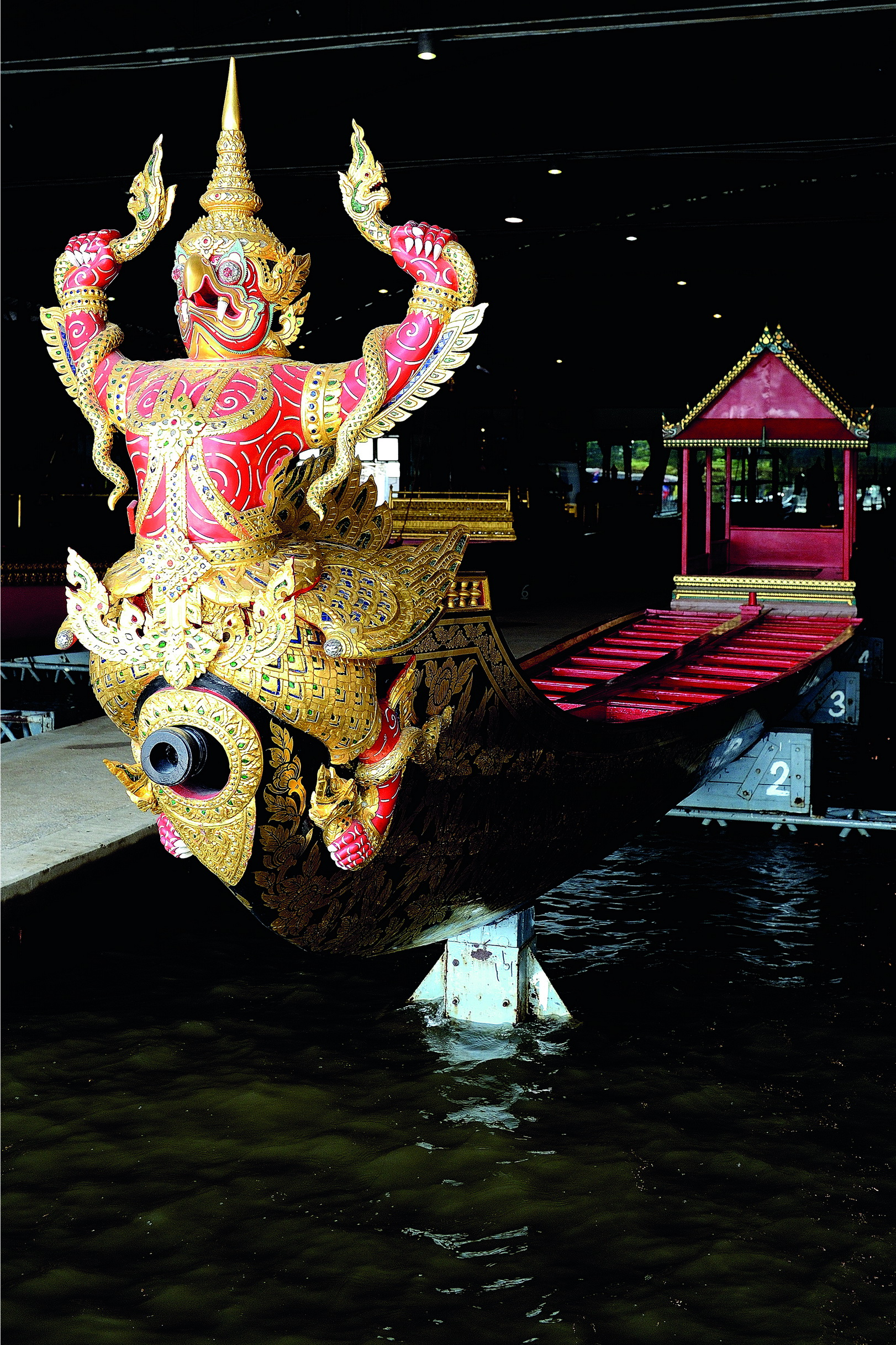 The National Museum of Royal Barges is located at 80/1 on a on a bank of Bangkok Noi canal in Siriraj subdistrict, Bangkok Noi district. It was originally a dock to store royal barges. In 1947, the Bureau of the Royal Household and the Royal Thai Navy commissioned the Department of Fine Arts to repair royal barges and others used in royal barge procession, most of which were and have been significant to historic events and arts. In 1974, the department registered as National heritage, and upgraded the dock to “The National Museum of Royal Barges”. The barges on display are divided into 2 categories, being: 4 royal barges - the Royal Barge Suphannahong, the Royal Barge Narai Song Suban HM King Rama IX, (the king’s personal barge), the Royal Barge Anantanakkharat and The Royal Barge Anekkachatphuchong, and 4 escort barges - Ekachai Hern How Barge, Krut Hern Het Barge, Krabi Prap Mueang Man Barge, and Asura Vayuphak Barge. The exhibition also displays histories of the barges used in procession, and images of royal barge procession, presenting in a chronicle period from Ayutthaya to Rattanakosin.